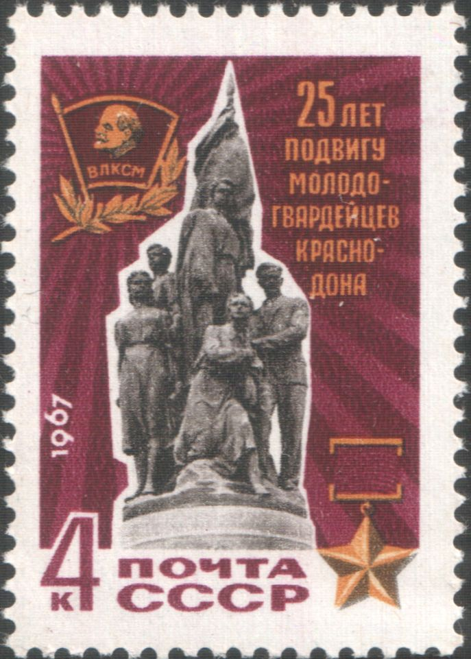 25th Anniversary to Feat of Molodaya Gvardiya